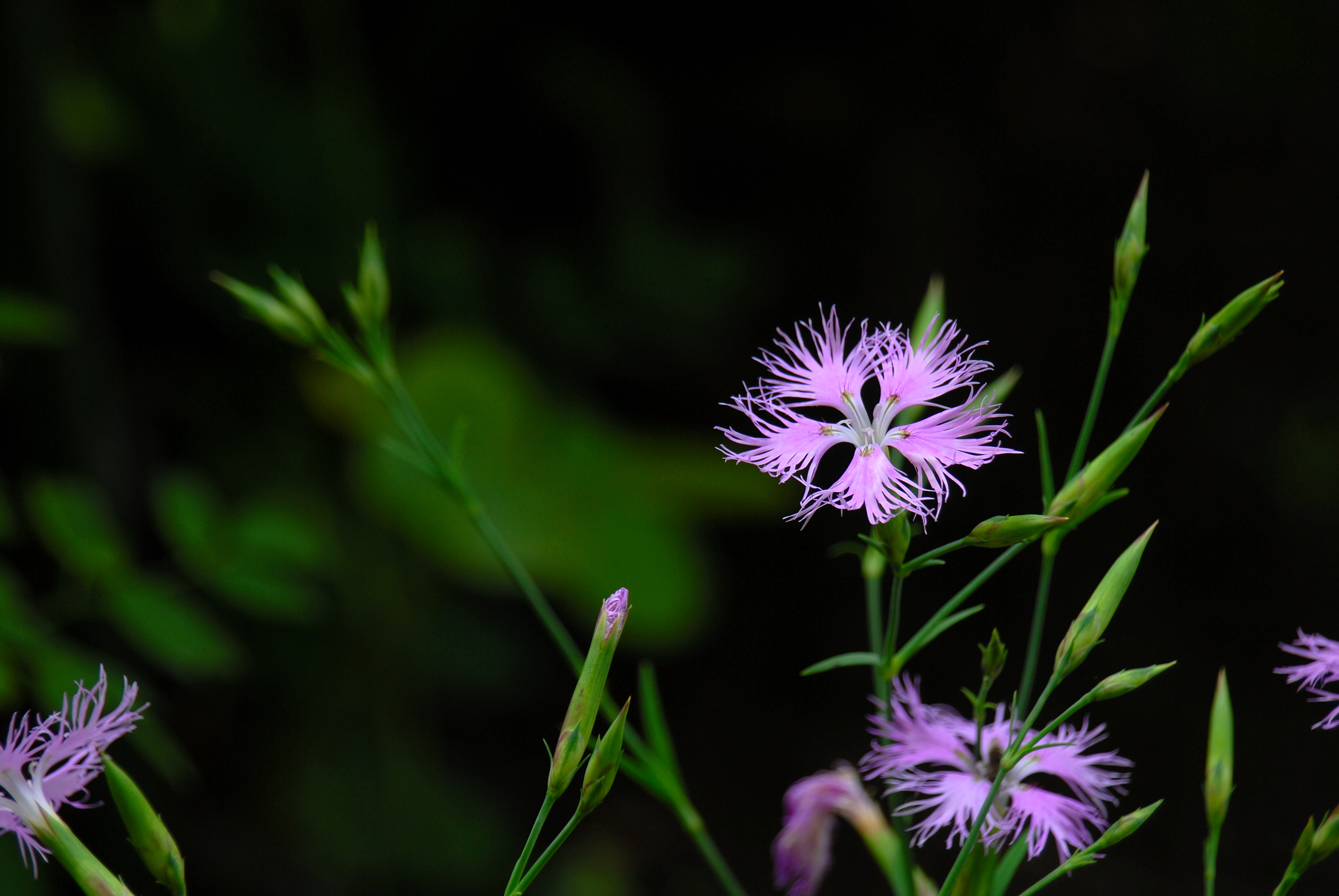 Dianthus superbus, Sapporo Hokkaido Nippon